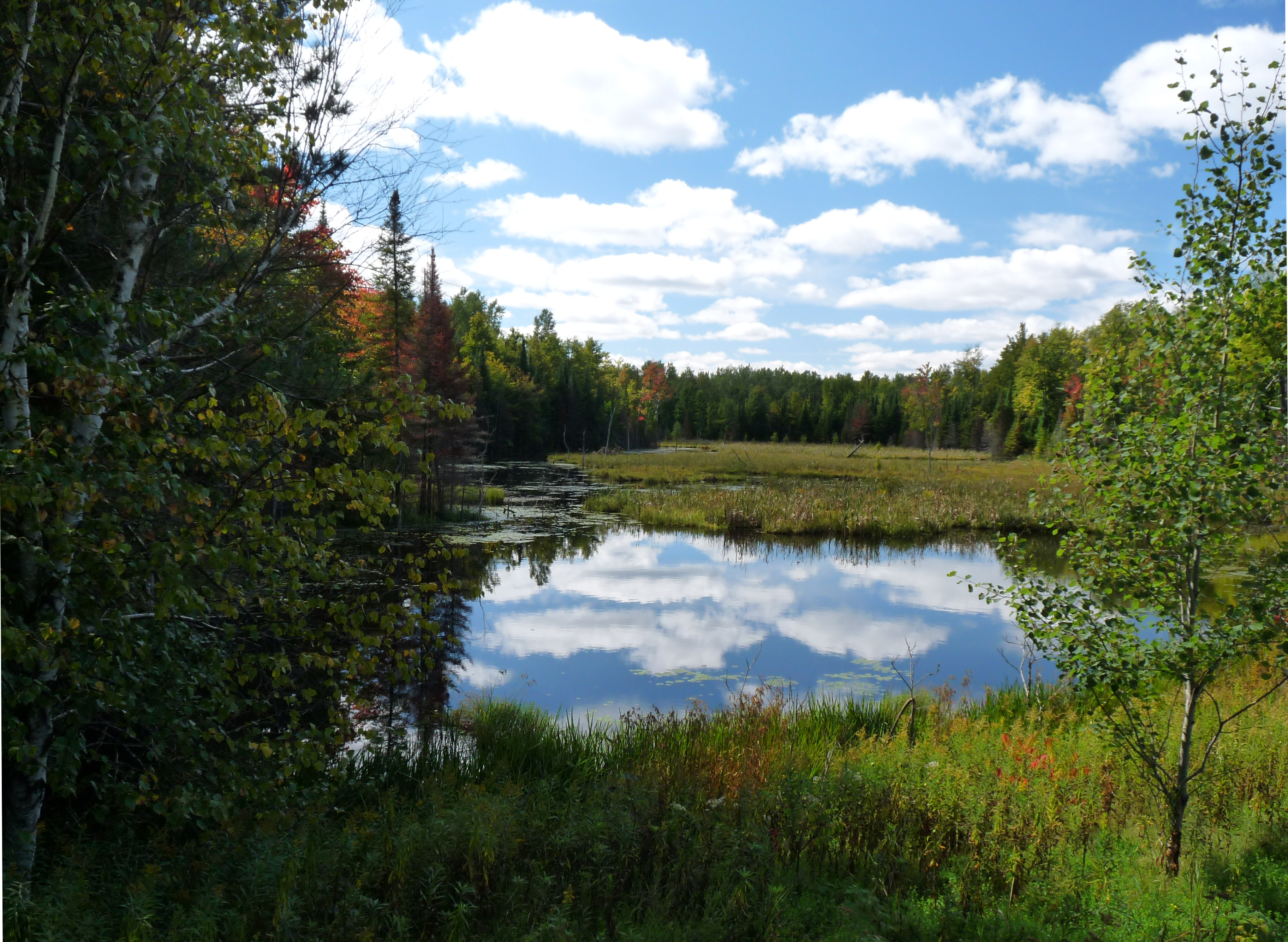 Much of the Town of Westboro in Taylor County, Wisconsin, is thinly settled national forest land, like this little shallow lake seen from CTH D.